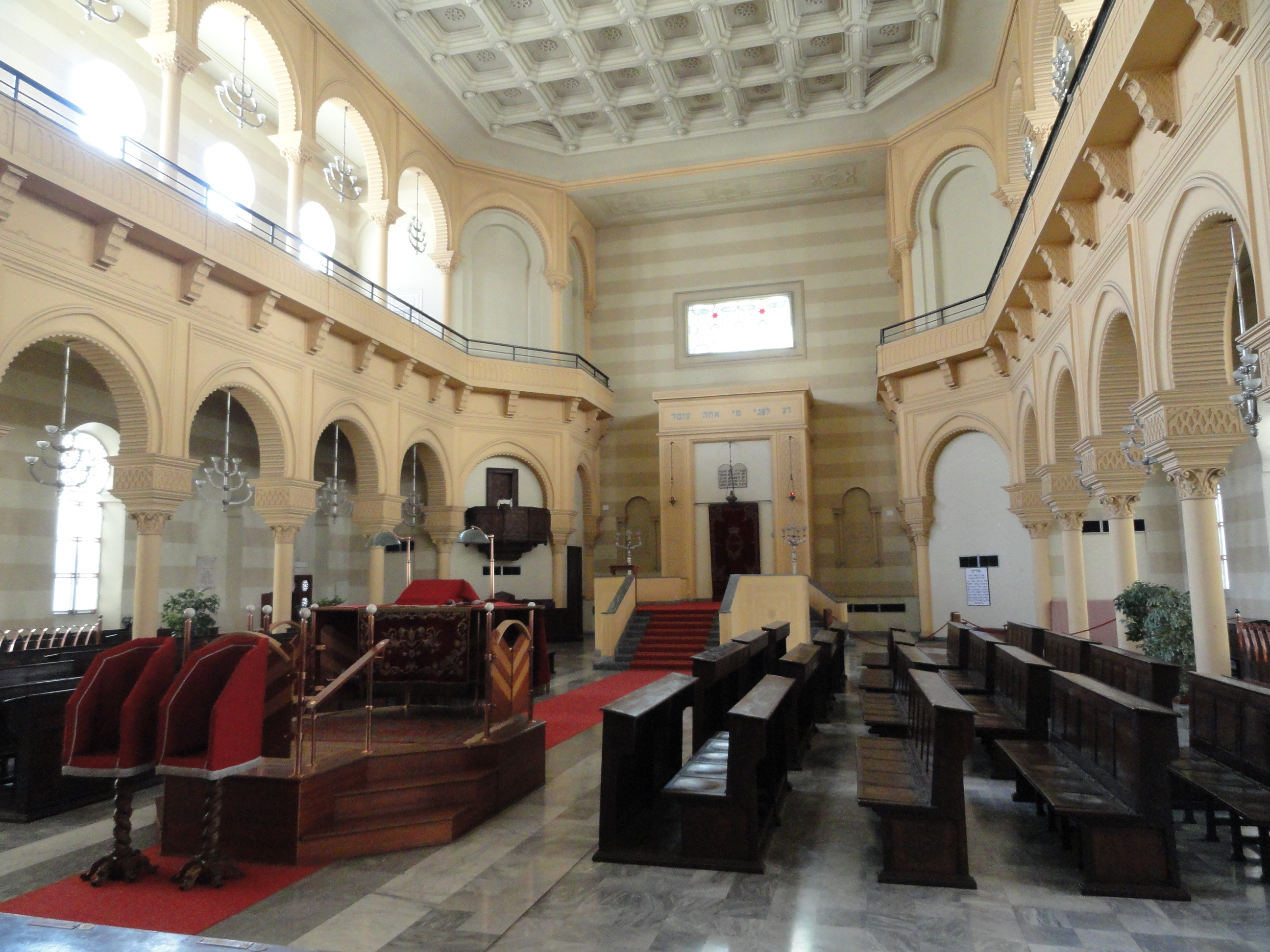 Synagogue of Turin (Italy), built in 1884. General view